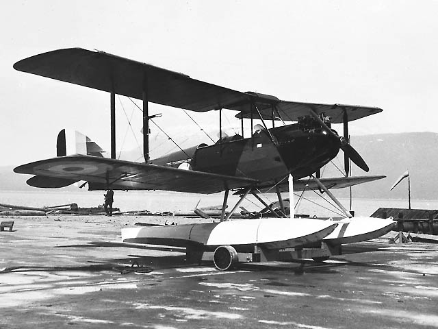 de Havilland DH60 floatplane in service with the Canadian air force. The official website of the Canadian air Force claims that the CAF used a total of 91 DH60's powered by various engines. Many of them, like the one in this picture, had their landing gear replaced by twin floats. The DH60 commonly known as 'The Moth', this airplane would be a 'Cirrus Moth' because of his ADC Cirrus engine.